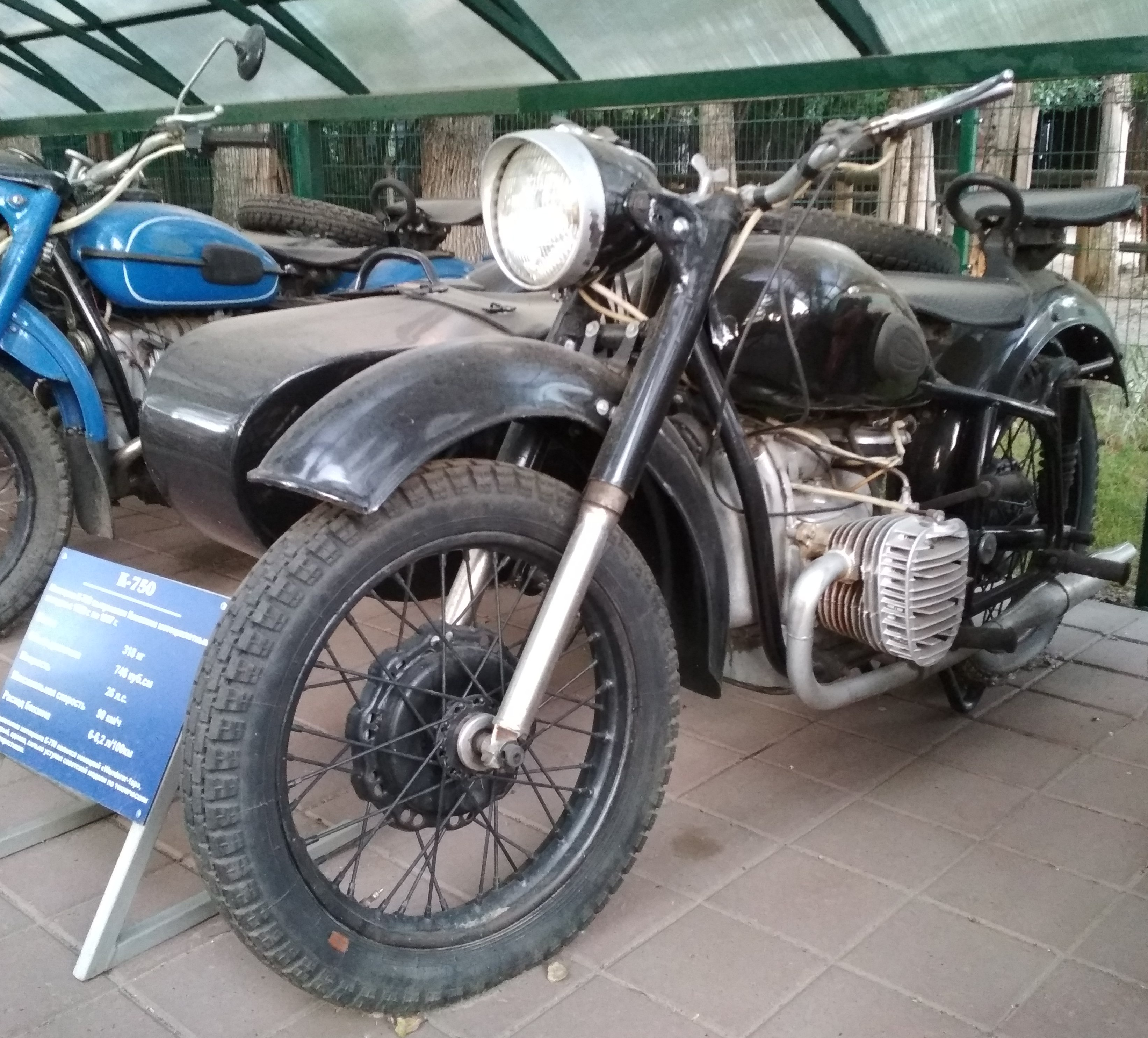 Motorcycle К-750 in the collection of Nizhny Novgorod zoo "Limpopo".